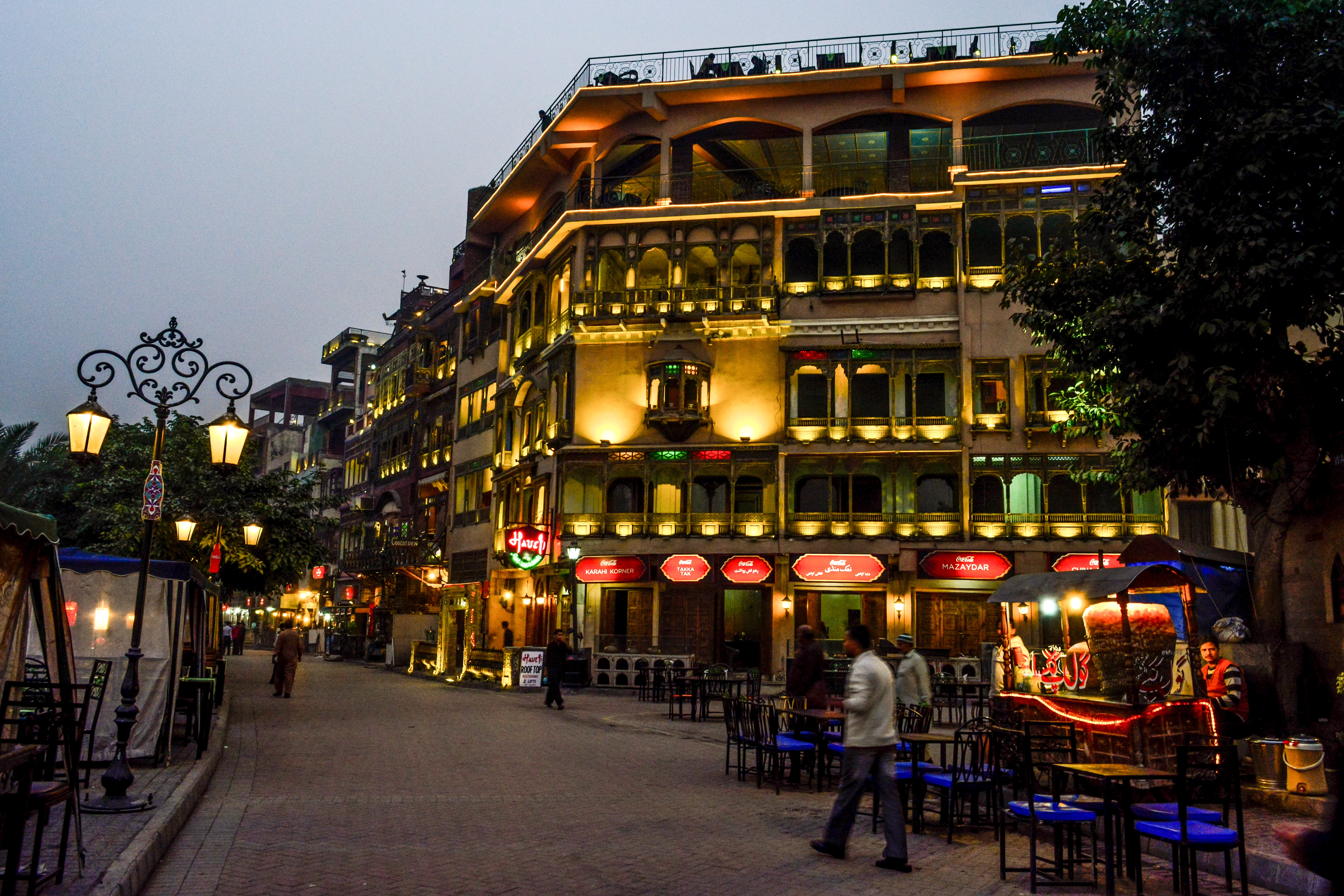 Lahore Fort complex (including Moti Masjid, Naulakha Pavilion, Sheesh Mahal and others) This is a photo of a monument in Pakistan identified as the PB-67